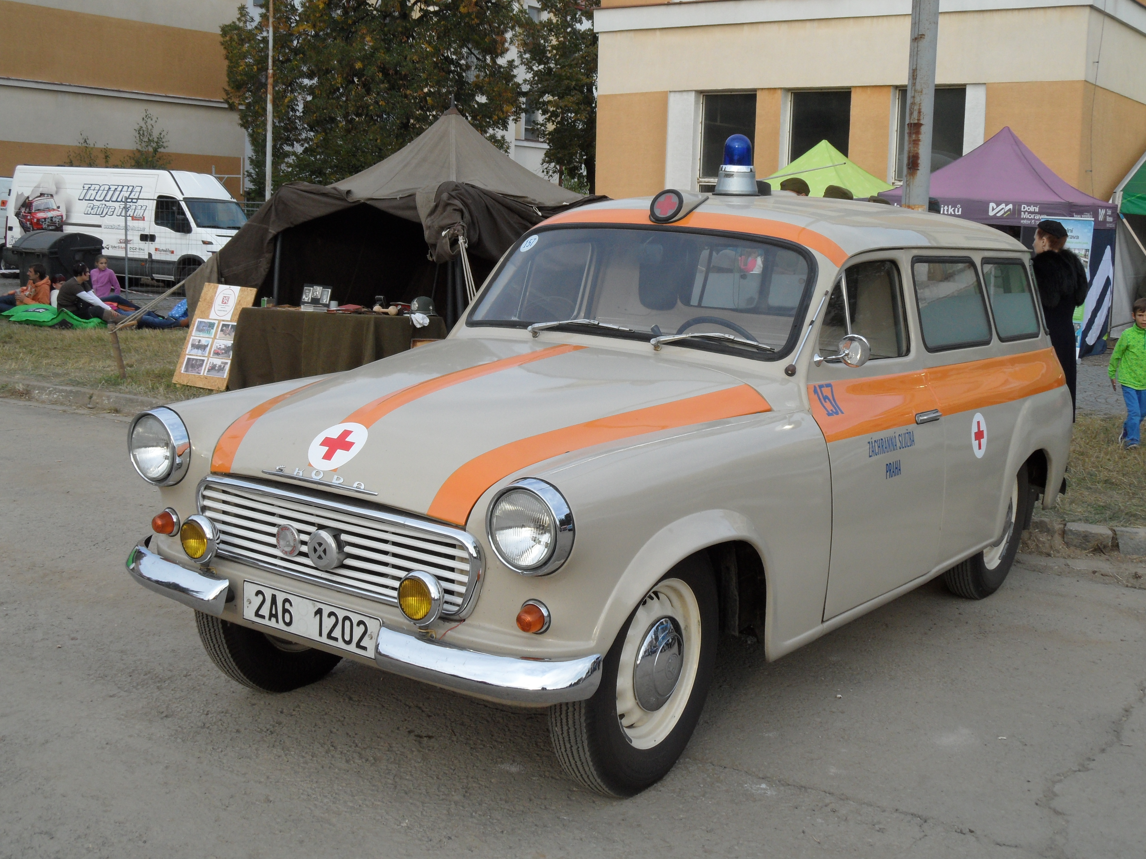 Retro City. Saturday: Main Programme, Police and Ambulance Cars H16. Škoda as Ambulance Car in former ČSSR. Pardubice, Pardubice District, the Czech Republic.